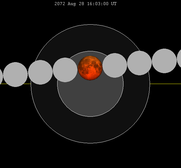 August 2072 lunar eclipse chart of moon's path through the earth's shadow. thumb